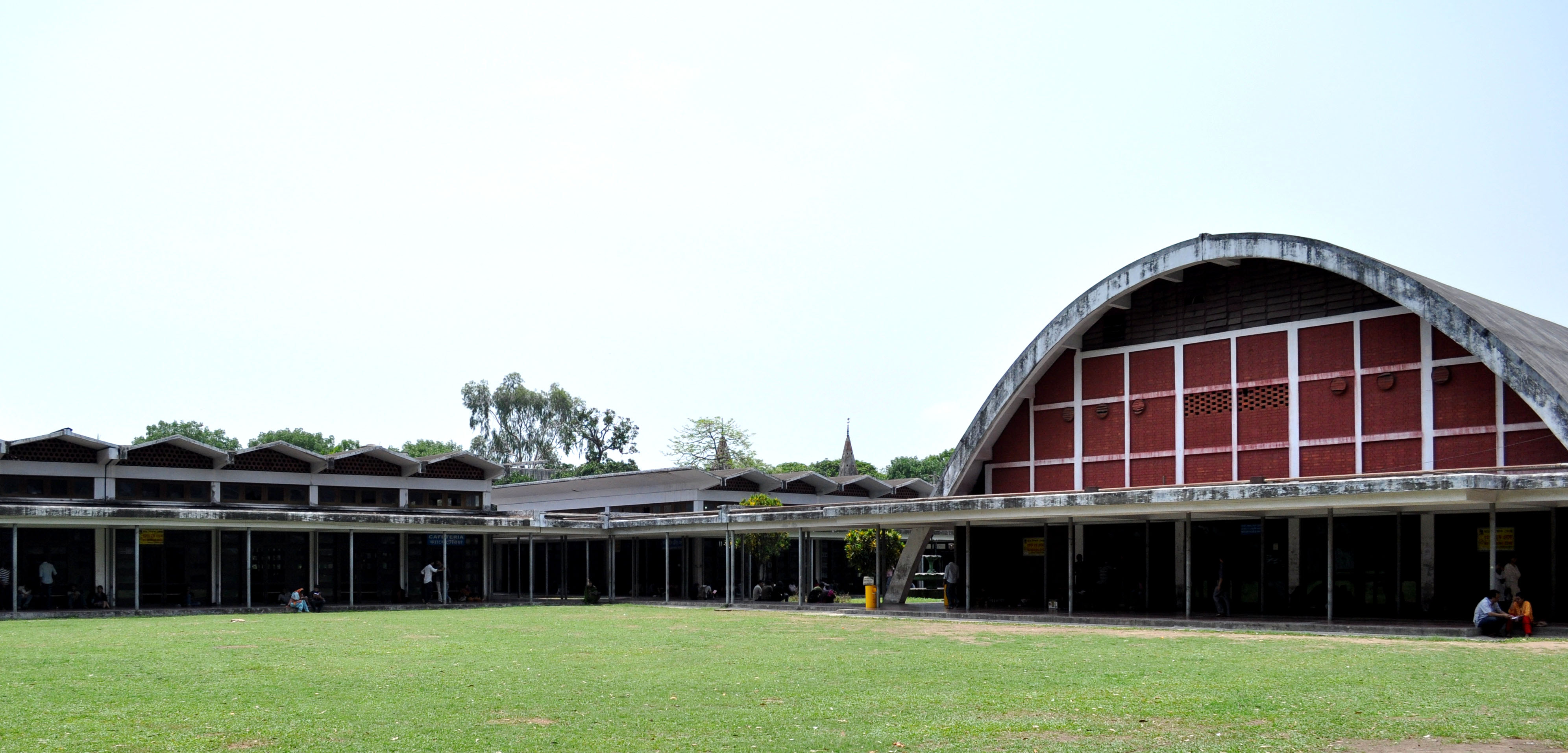 This picture shows part of the TSC building and the lawn infront.